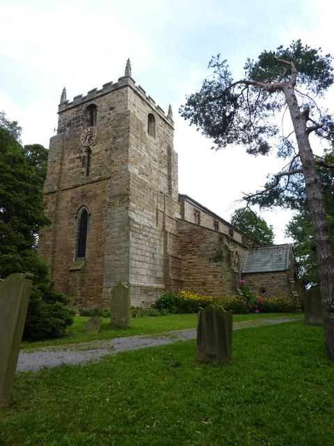 St Laurence's parish church, Hallgarth, Pittington, County Durham, seen from the southwest